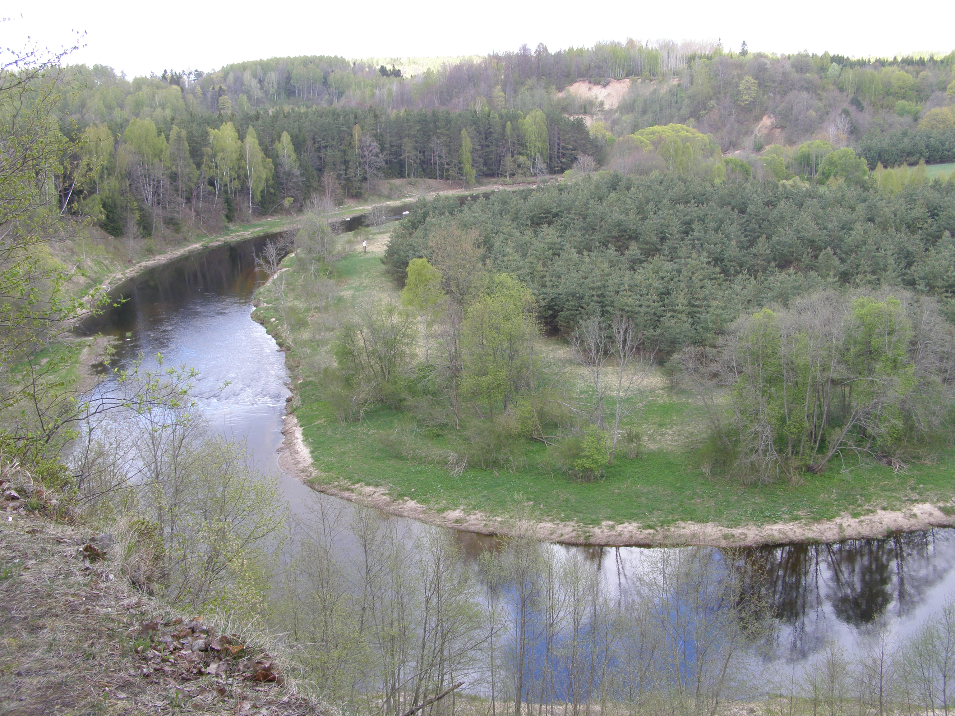 Dauginčiai, Kretinga district, Lithuania